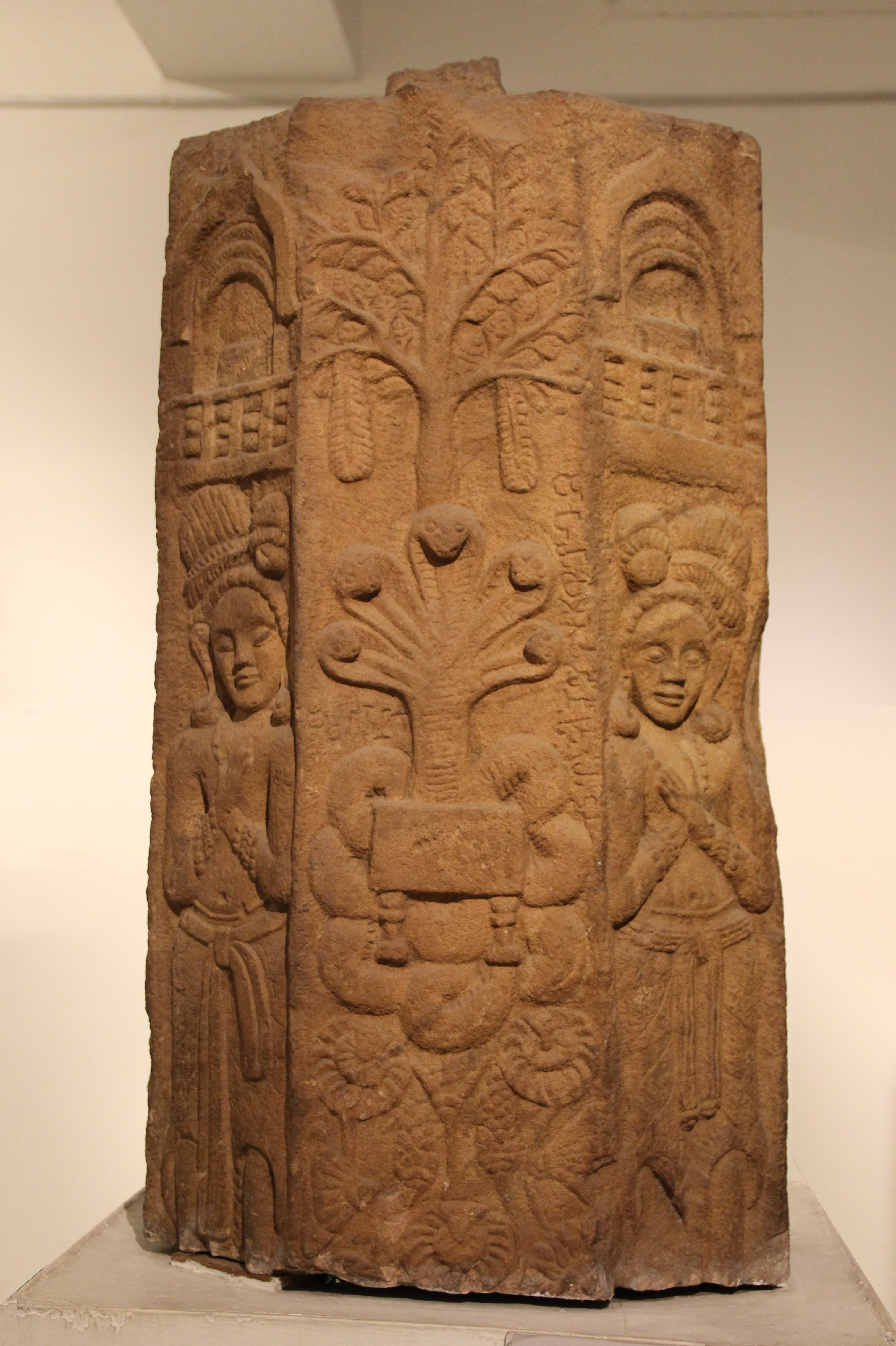 Pauni (Bhandara District). Railing pillar from Jagannath Tekri. 1st century BCE. Maurya, Shunga and Satavahana Arts Gallery, India National Museum, New Delhi. Complete indexed photo collection at .